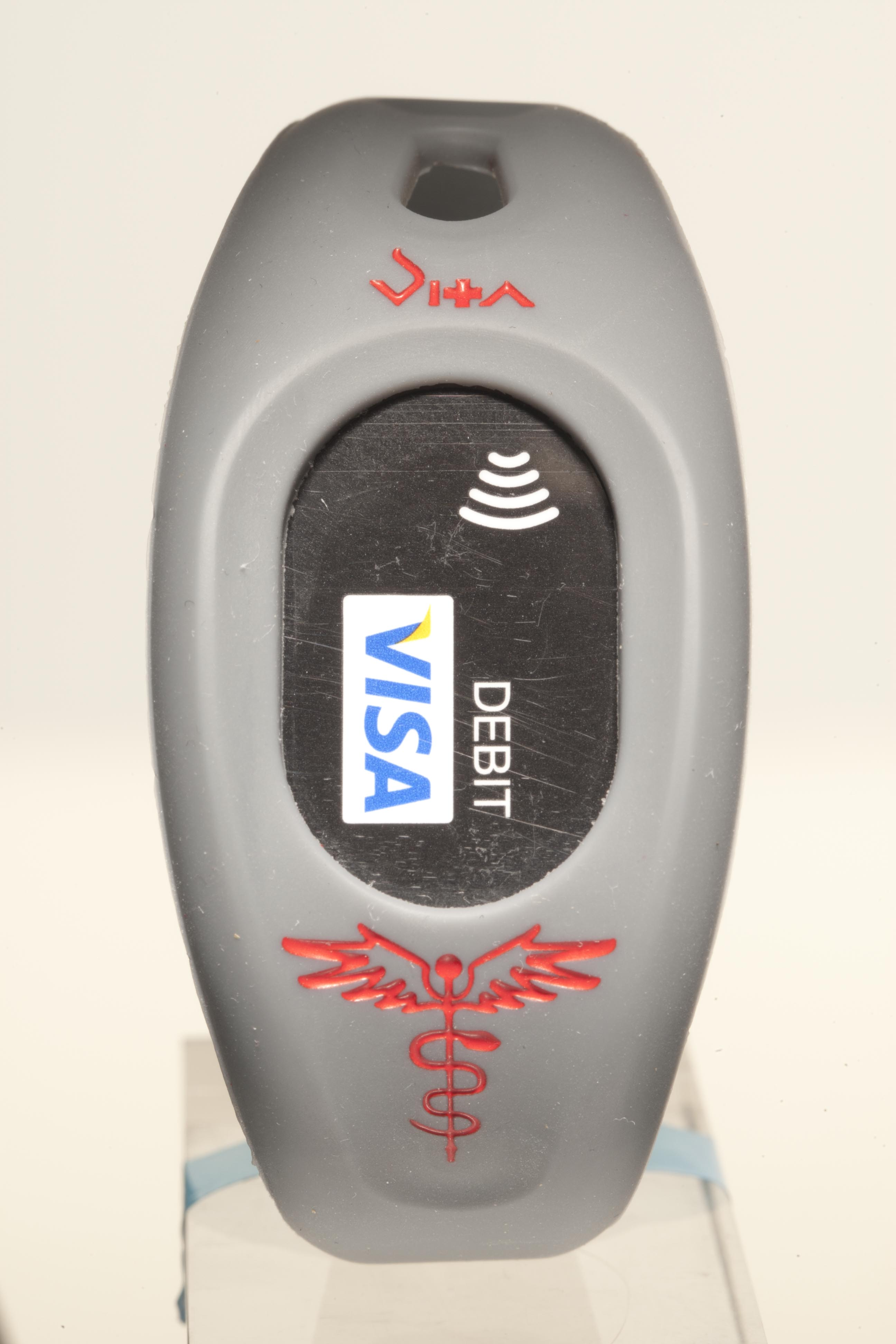 A VITAband showing a Visa Debit card transaction system